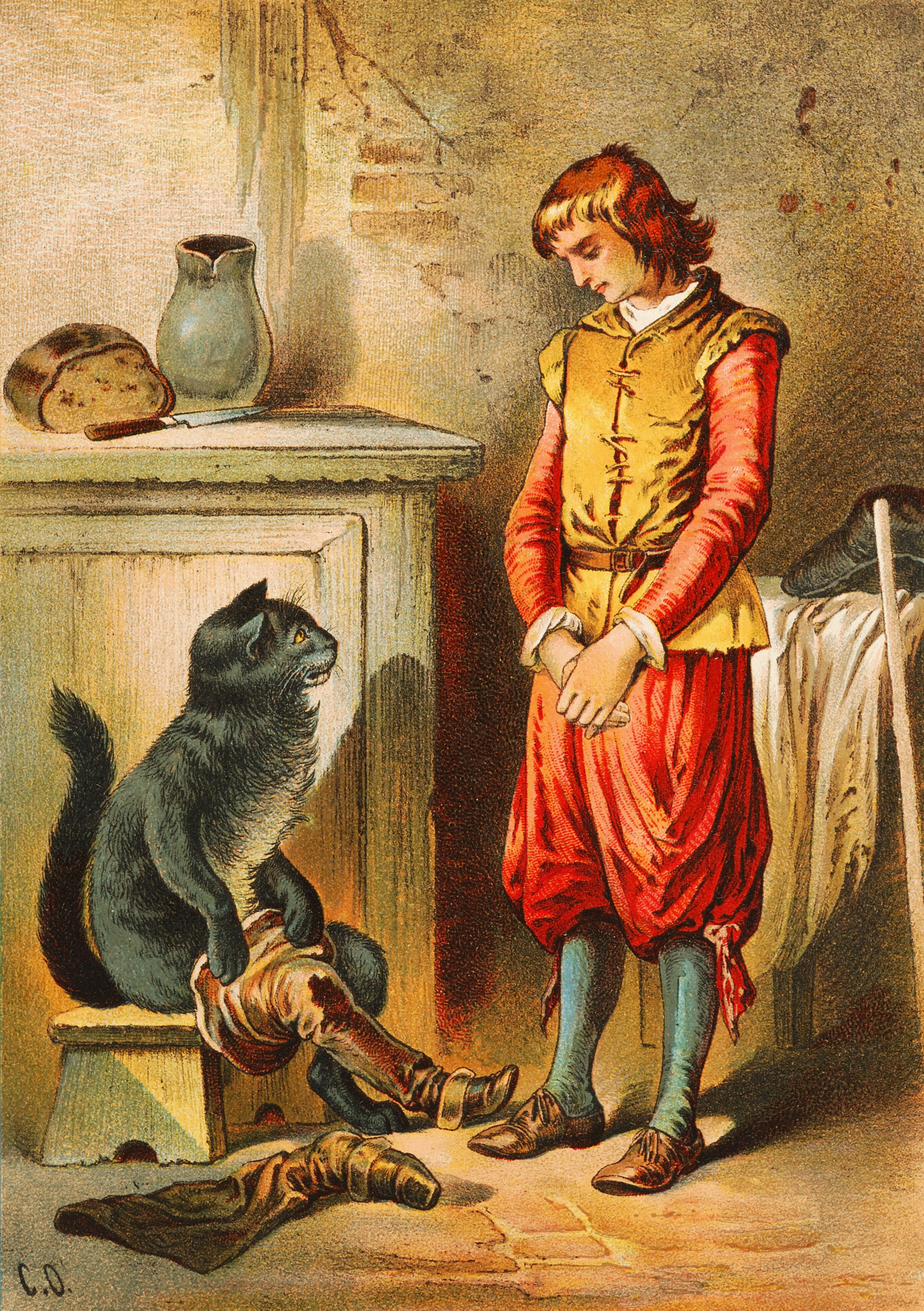 Puss in Boots, illustration by Carl Offterdinger